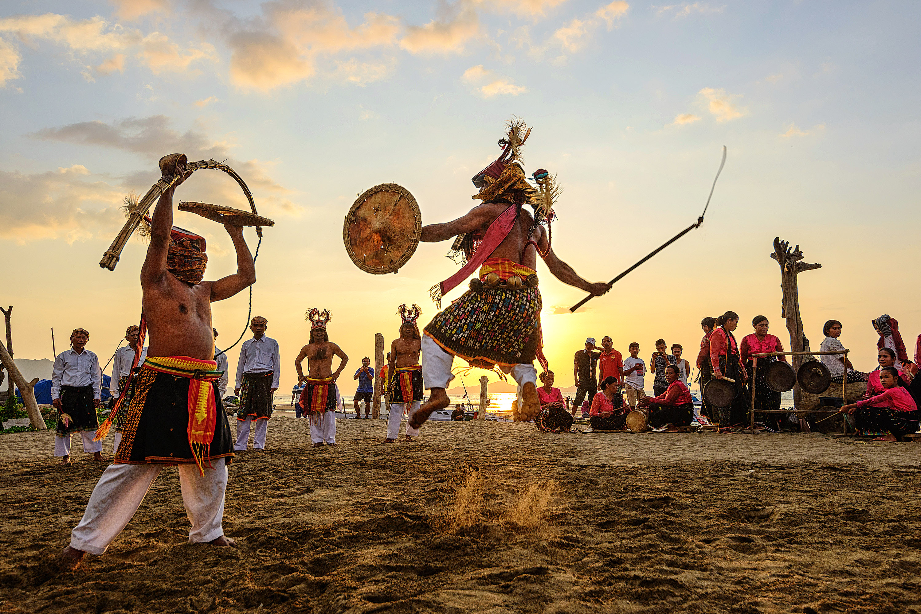 Caci Dance is one of the traditional arts of a kind of typical war dance from the Manggarai community on Flores Island, East Nusa Tenggara Province, Indonesia.